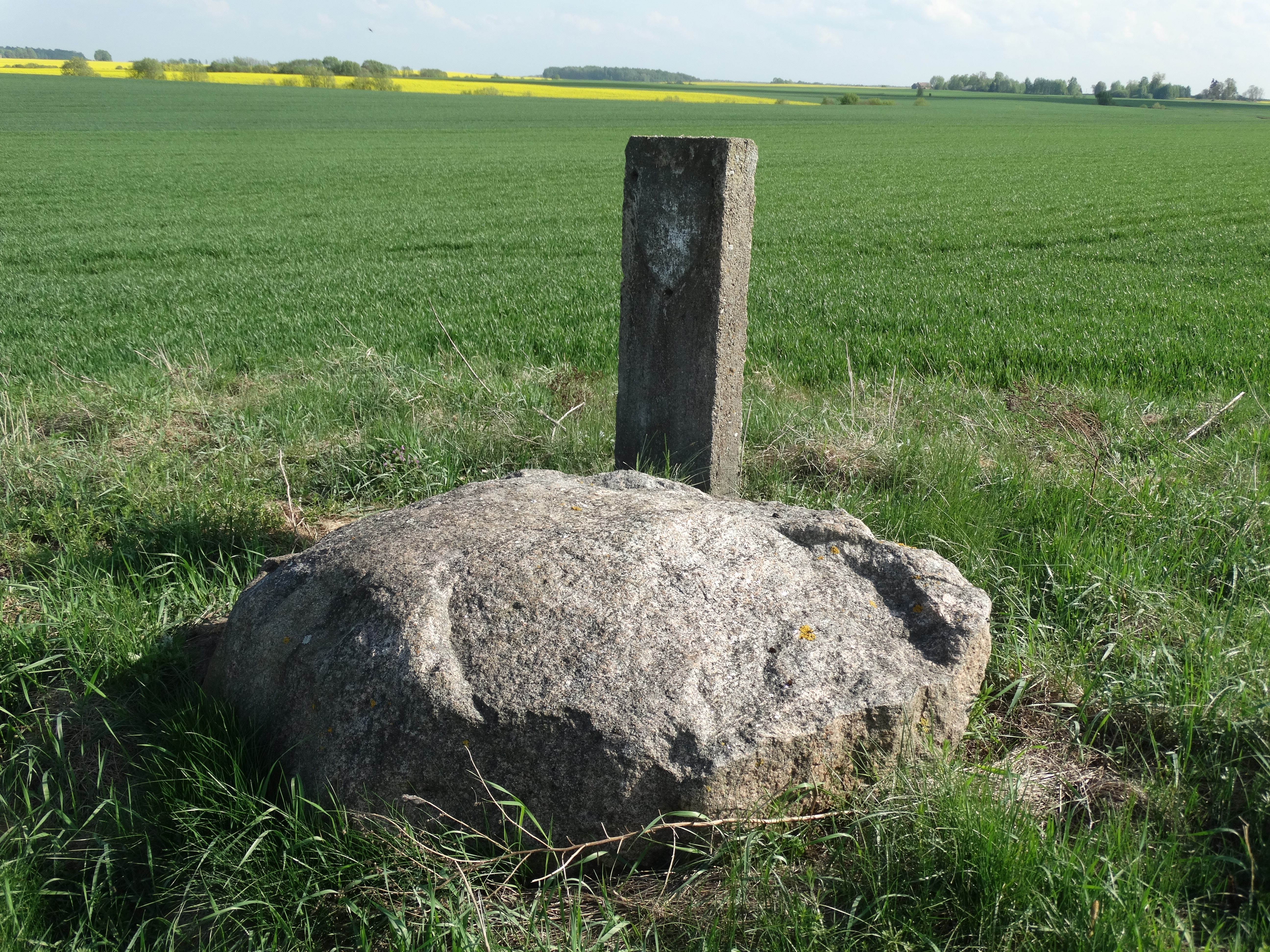 Possible tumulus, Kibai,Pakruojis district, Lithuania